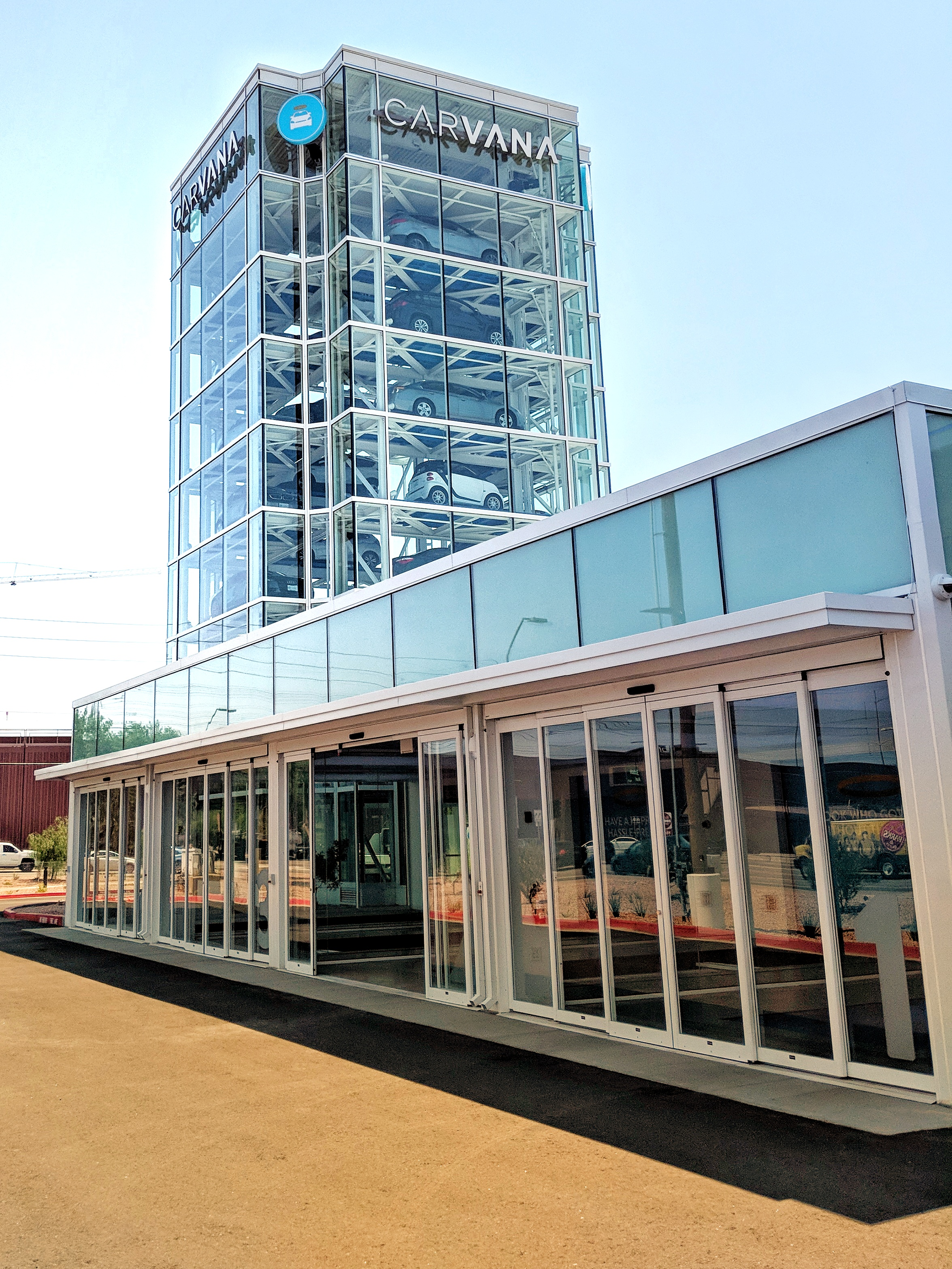 Photo of Carvana car vending machine office building in Tempe, AZ.